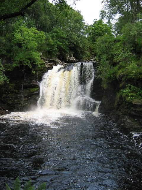 Falls of Falloch. Attractive waterfall in Glen Falloch, south of Crianlarich